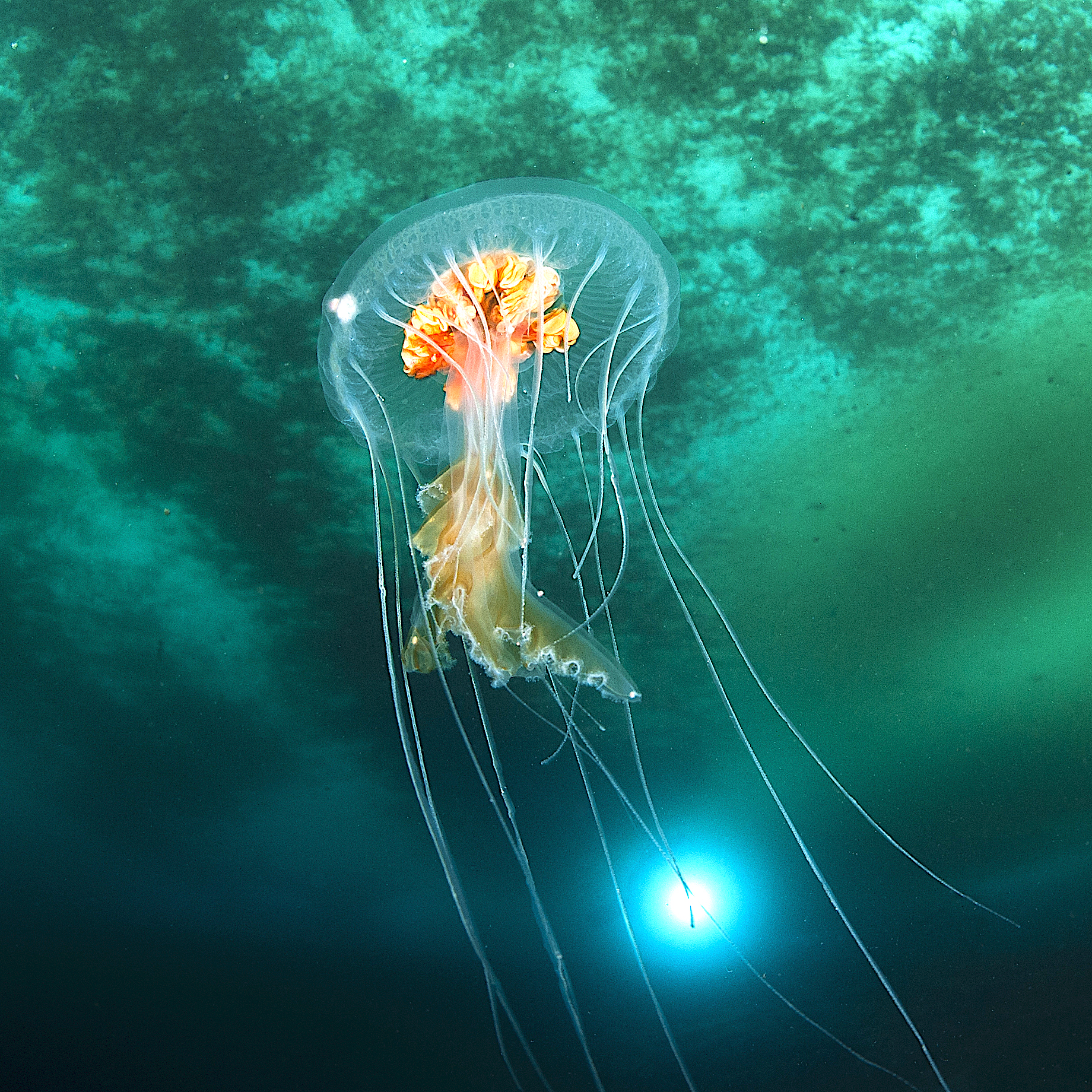 Underwater Antarctic biodiversity (French scientific base in Antarctica). Identified as Diplulmaris antarctica by Prof. Andre C. Morandini: “ Sometimes it is not so easy to identify animals by photographs, but in this case we can see some important features. It is a scyphozoan jellyfish of the order Semaeostomeae, due to the general body shape but mostly because of the marginal tentacles and elongated oral arms. It is a member of the family Ulmaridae because the gastric cavity is divided in canals, as can be seen by transparency. Subfamily Ulmarinae because tentacles arise from the margin and gonads are protrusive (the orange pleated tissue in the center). The difference between the genera of this subfamily (Diplulmaris, Discomedusa, Floresca, Parumbrosa, Ulmaris, Undosa) are the number of sense organs (rhopalia) and the number of tentacles, besides some canal system organization. As far as I can see the animal in the photo has 21 tentacles and 10 rhopalia (probably more of both). But the angle of the image does not allow me to see more. I think it is a Diplulmaris antarctica, by the way from all valid species of the subfamily, this is the only one known from Antarctic waters. The species has 16 sense organs and 16-48 tentacles. If you Google it, at least the first images are OK. ”